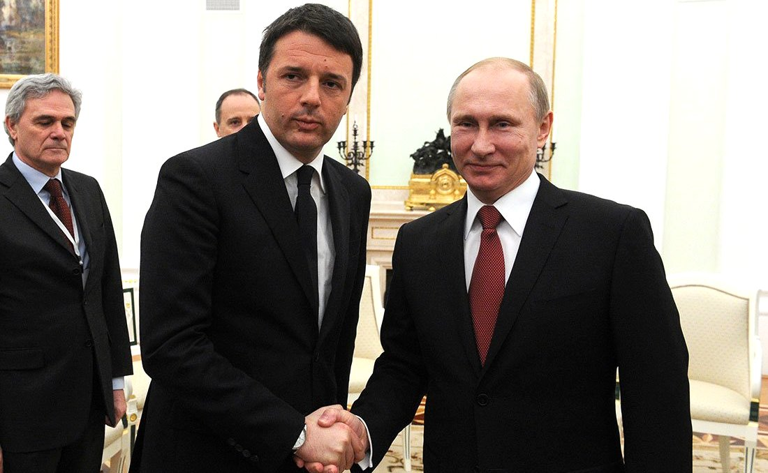 Matteo Renzi and Vladimir Putin